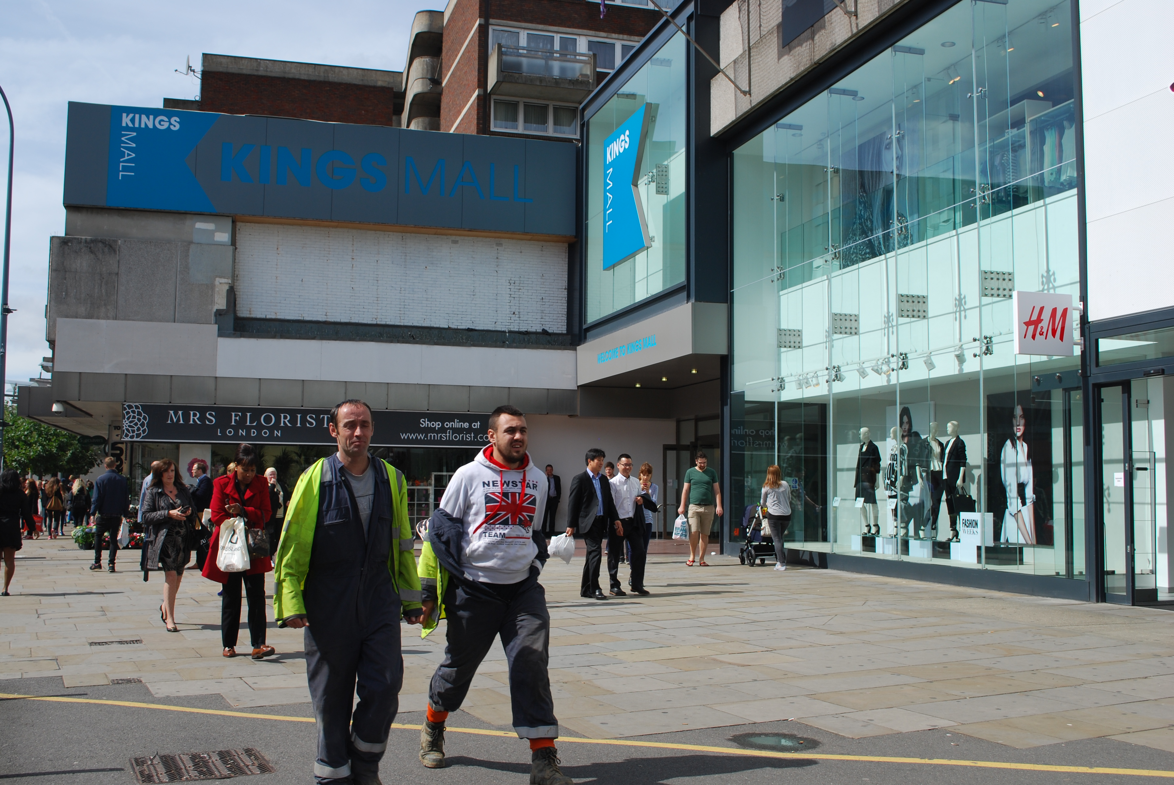 Kings Mall Shopping Centre following its 2013 refurbishment